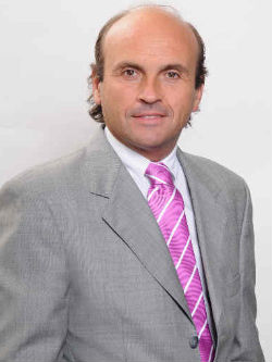 Portrait of Gonzalo Uriarte.